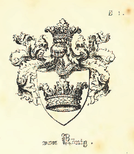 Herb rodziny Józefa Keniga (1821-1900); wg.: Geschlechts- und Wappenbuch des Koenigreichs Hannover und des Herzogthums Braunschweig, wyd. H. Grote, Hannover 1852.